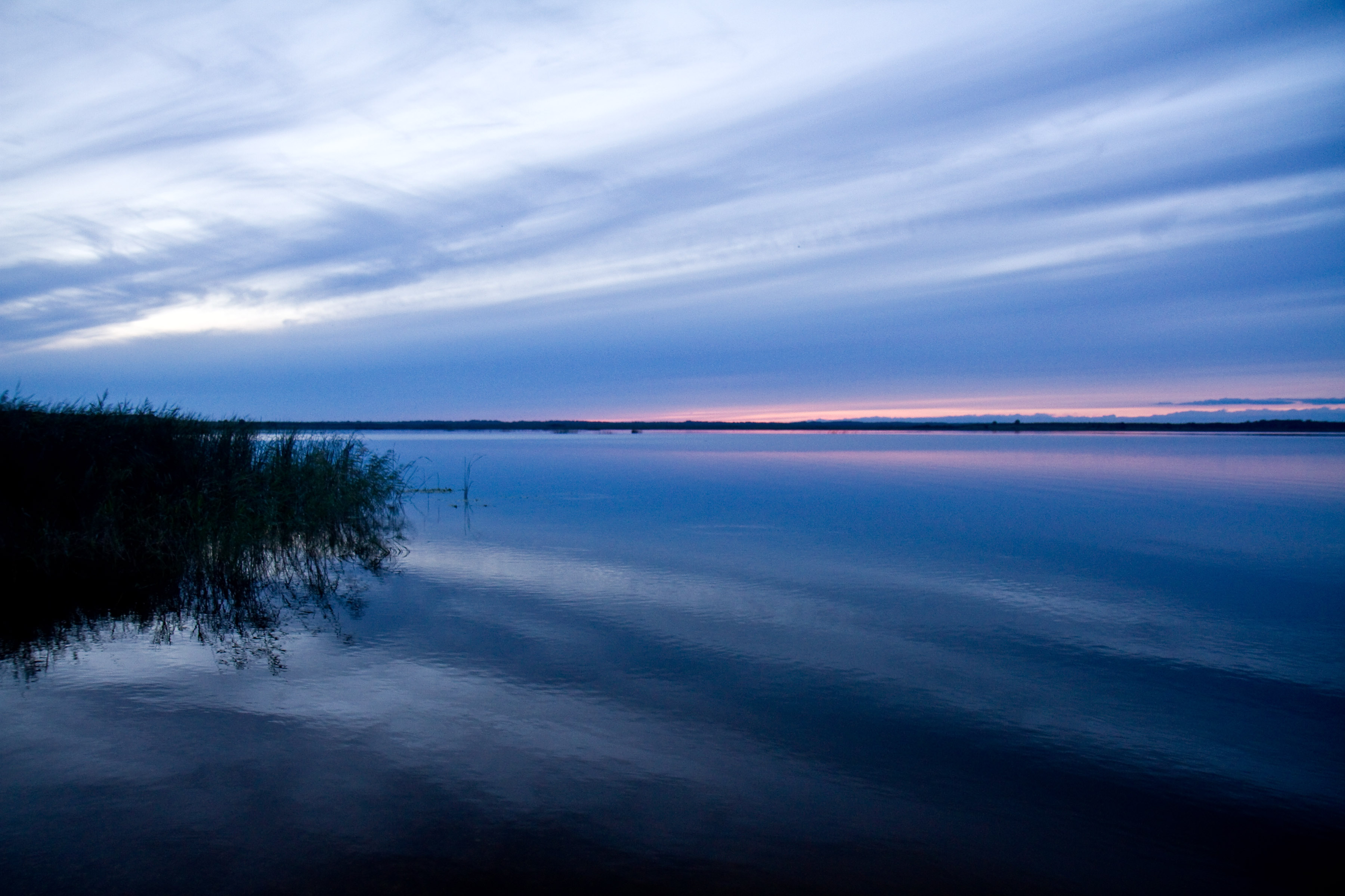 Aśviejskaje Lake. Vierchniadźvinsk district, Viciebsk province, Belarus.